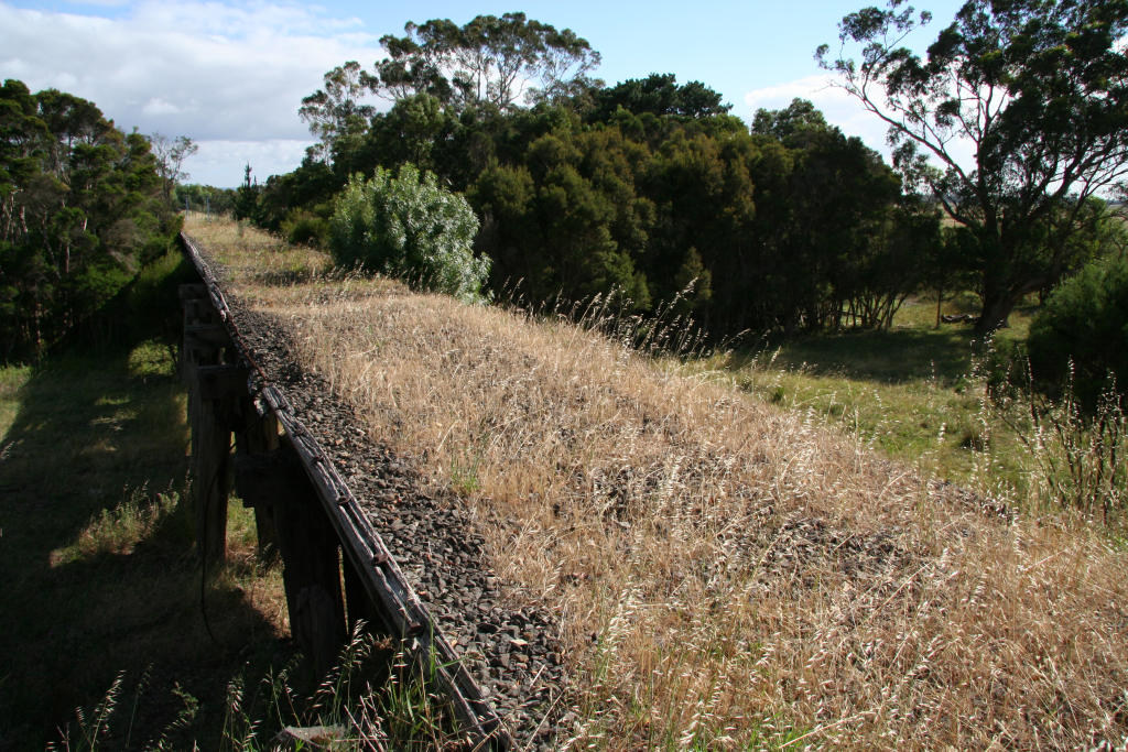 Trestle bridge on the Maffra railway line, Victoria between Glengarry and Traralgon